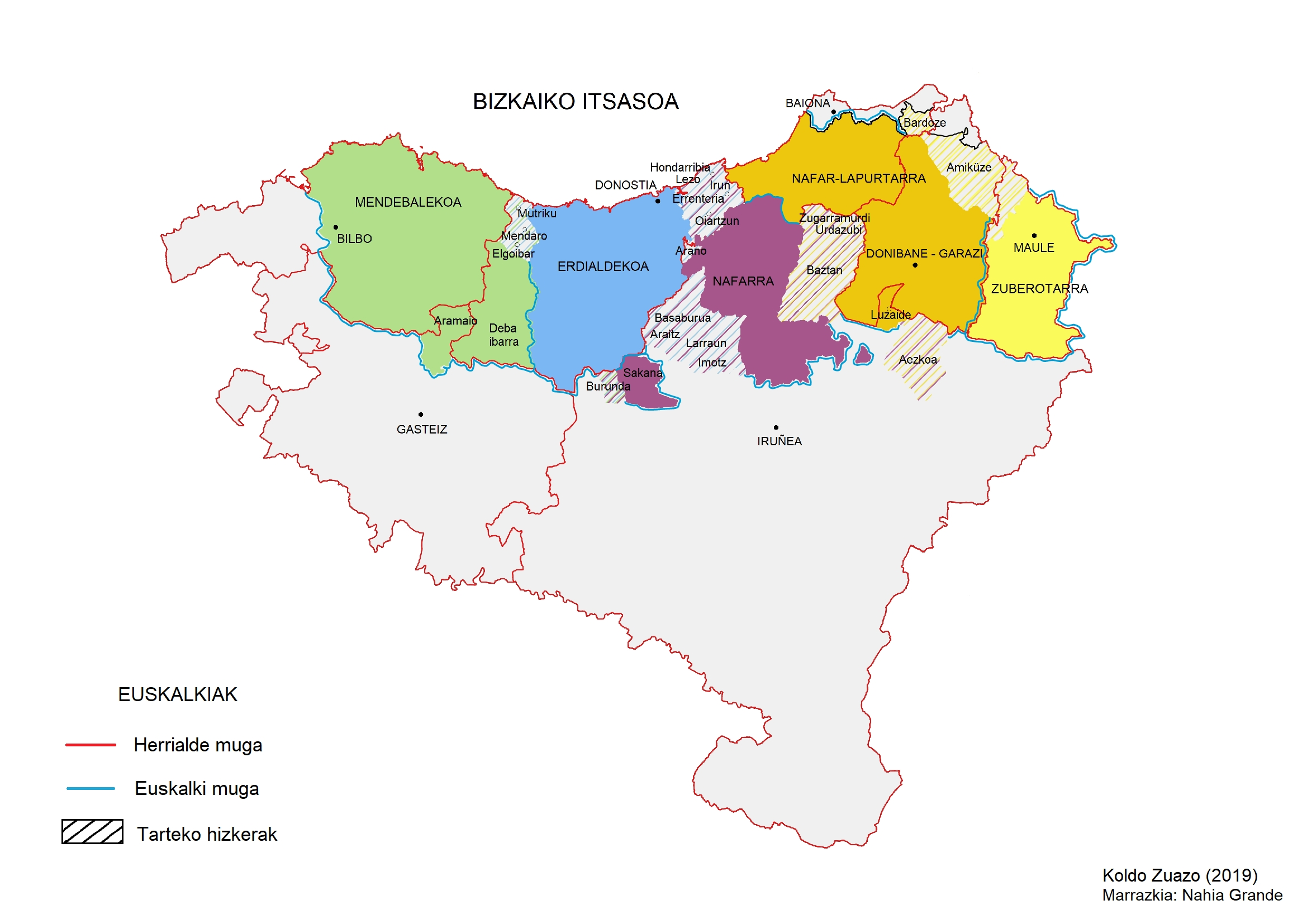 Euskalkien mapa, 2019an. Koldo Zuazok egina.